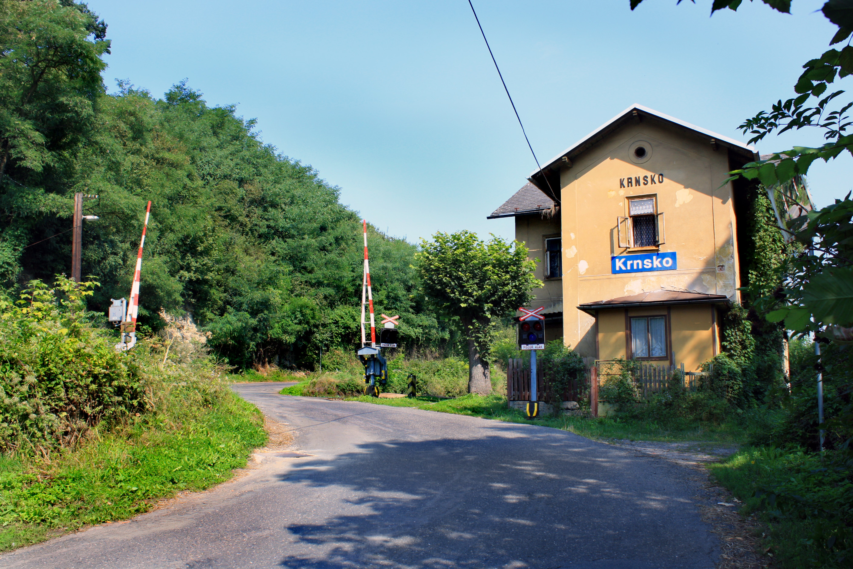 Train stop in Krnsko, Czech Republic